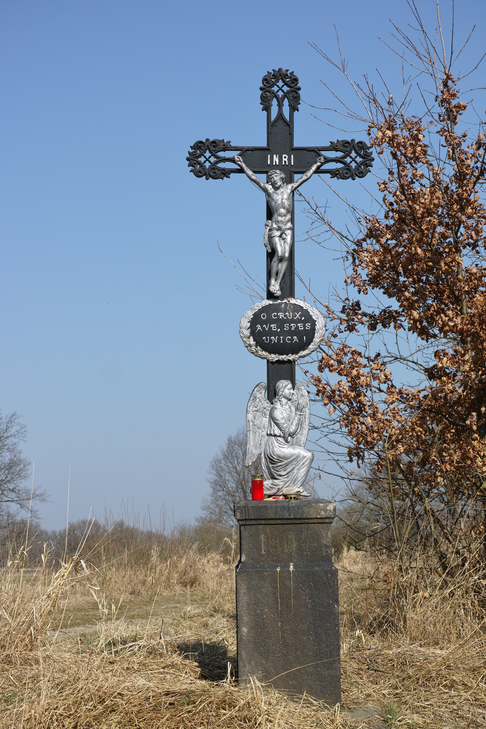 Wayside cross near Nové Dvory, České Budějovice, Czech Republic